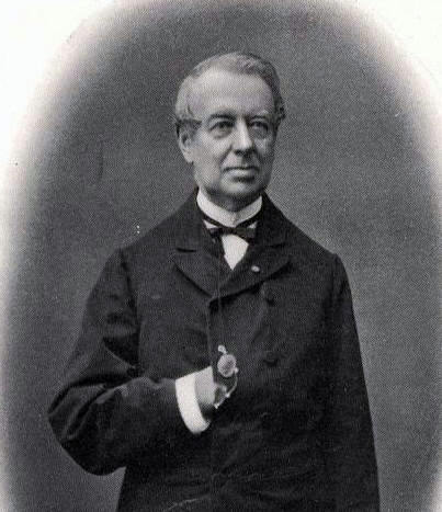 Jules d'Anethan, Prime Minister of Belgium